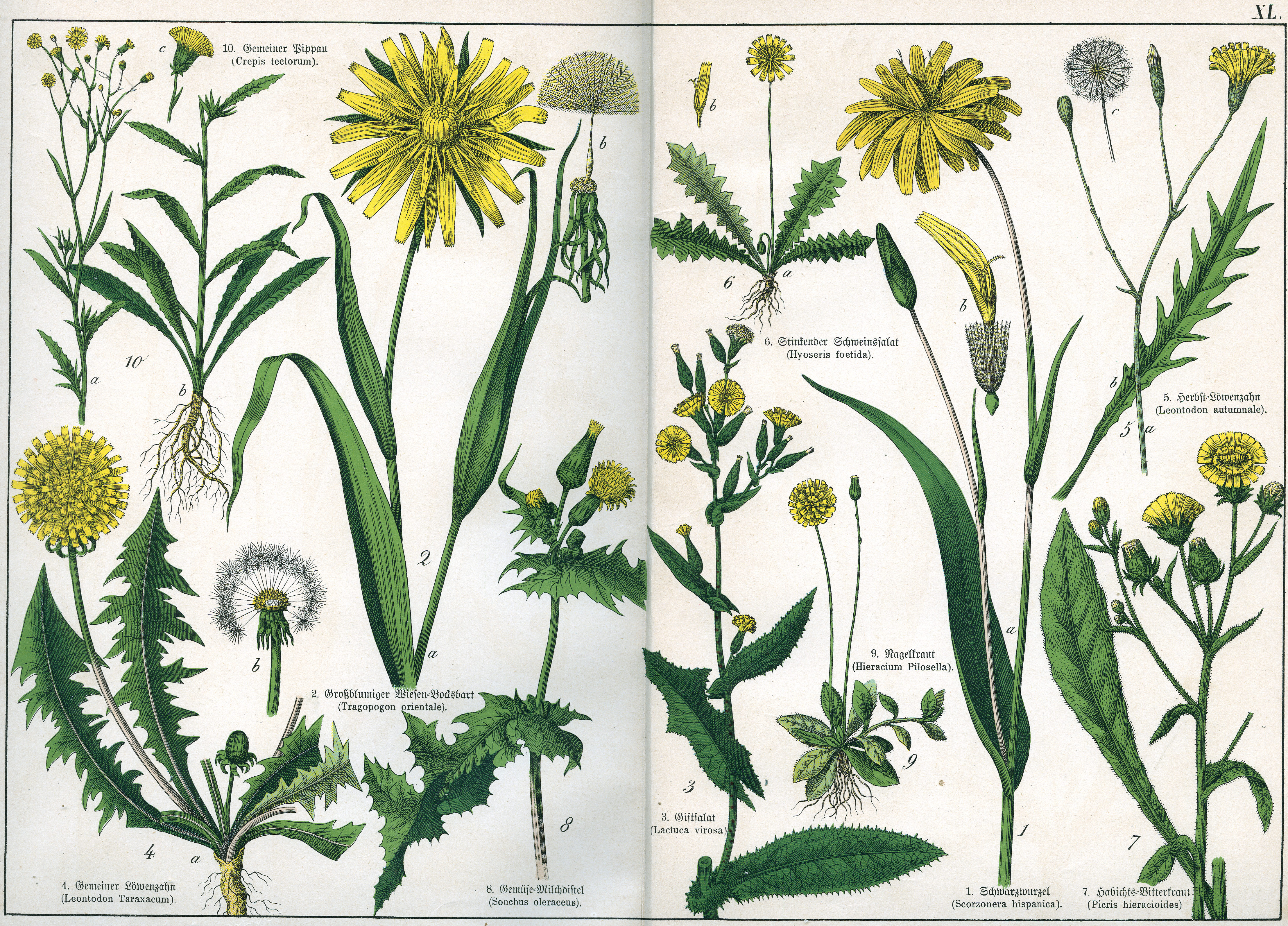 illustration from «Naturgeschichte des Pflanzenreichs», table XL 2. Tragopogon orientale = Tragopogon pratensis subsp orientalis? 4. Leontodon Taraxacum = Taraxacum officinale 6. Hyoseris foetida = Aposeris foetida